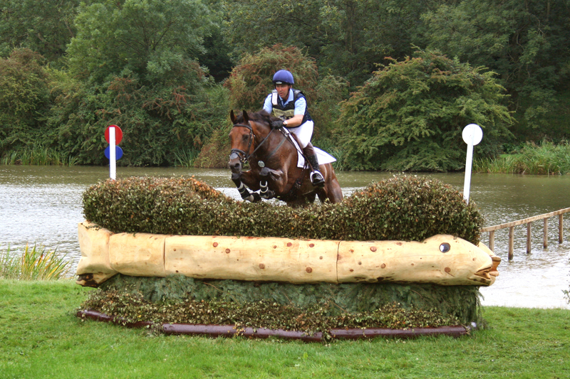 Jonathan Chapman competing at Blenheim in September 2006